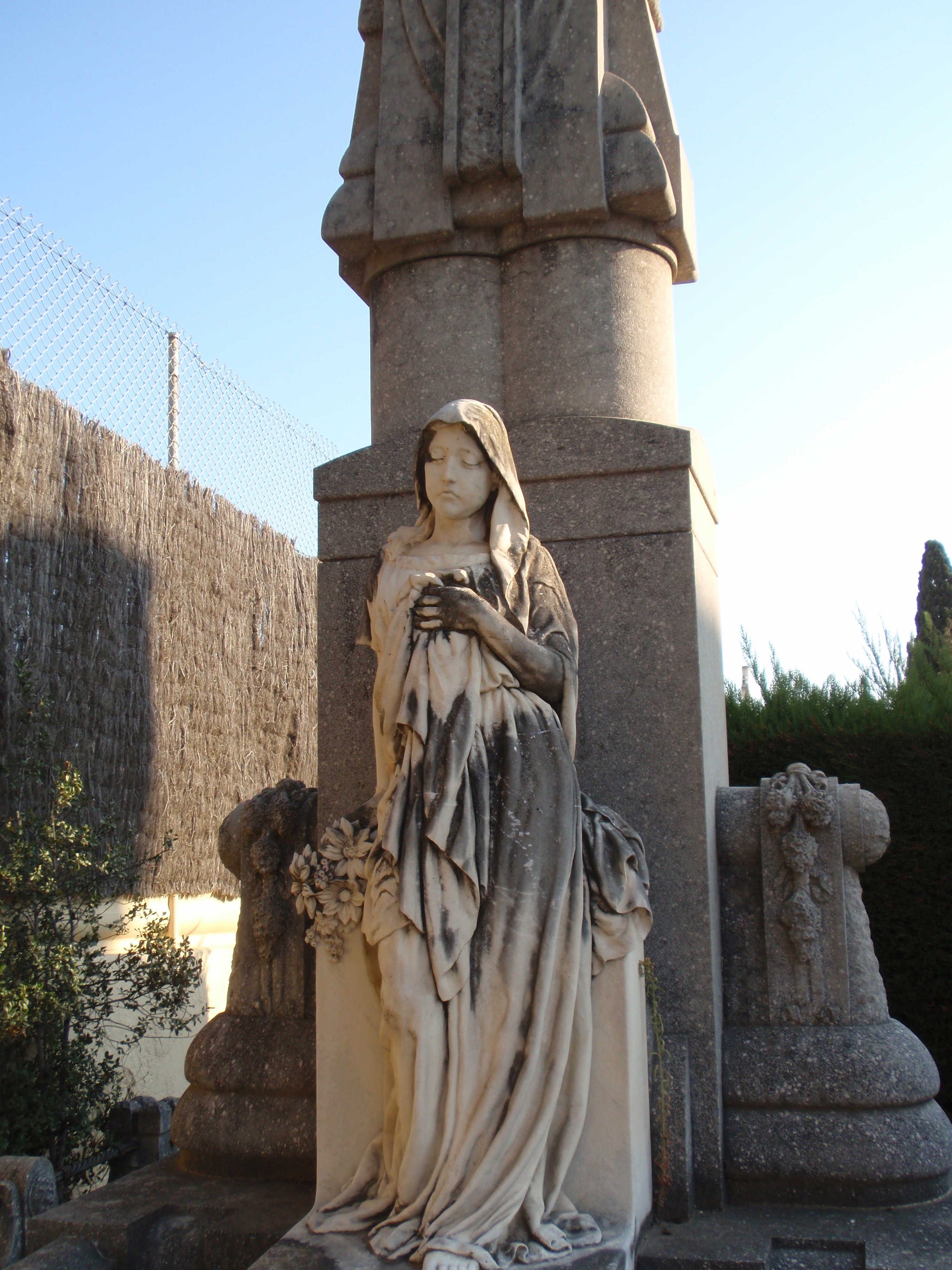 Arenys de Mar cemetery (Catalonia, Spain)